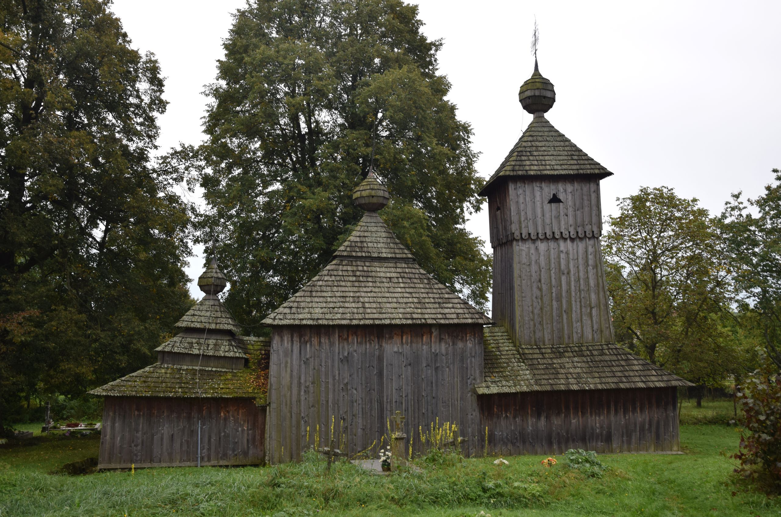 Jedlinka wooden church